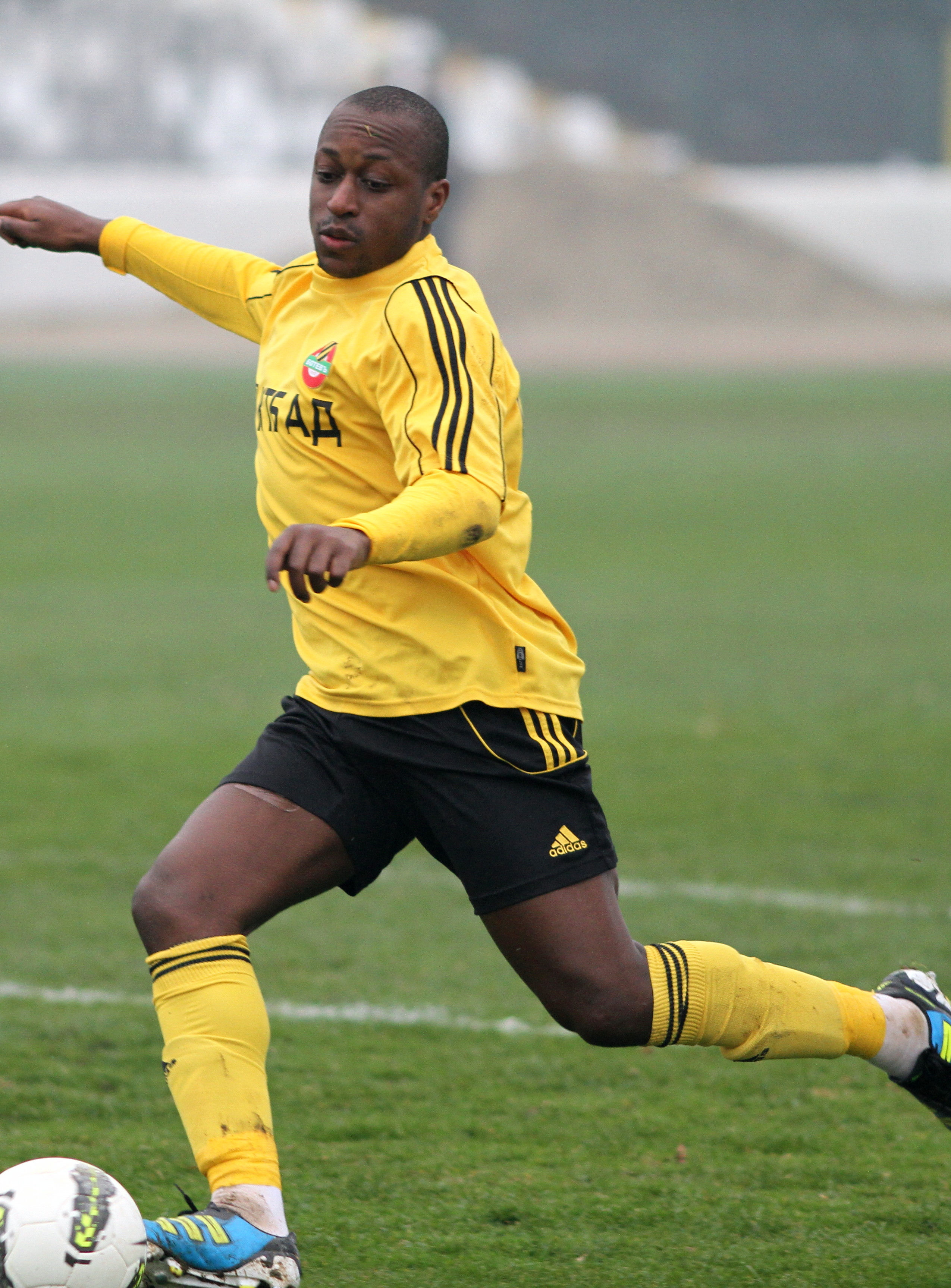 Habib Bamogo (born 8 May 1982 in Paris) is a French-born Burkinabé professional footballer who currently plays as a forward for Botev Plovdiv in the Bulgarian A Professional Football Group.